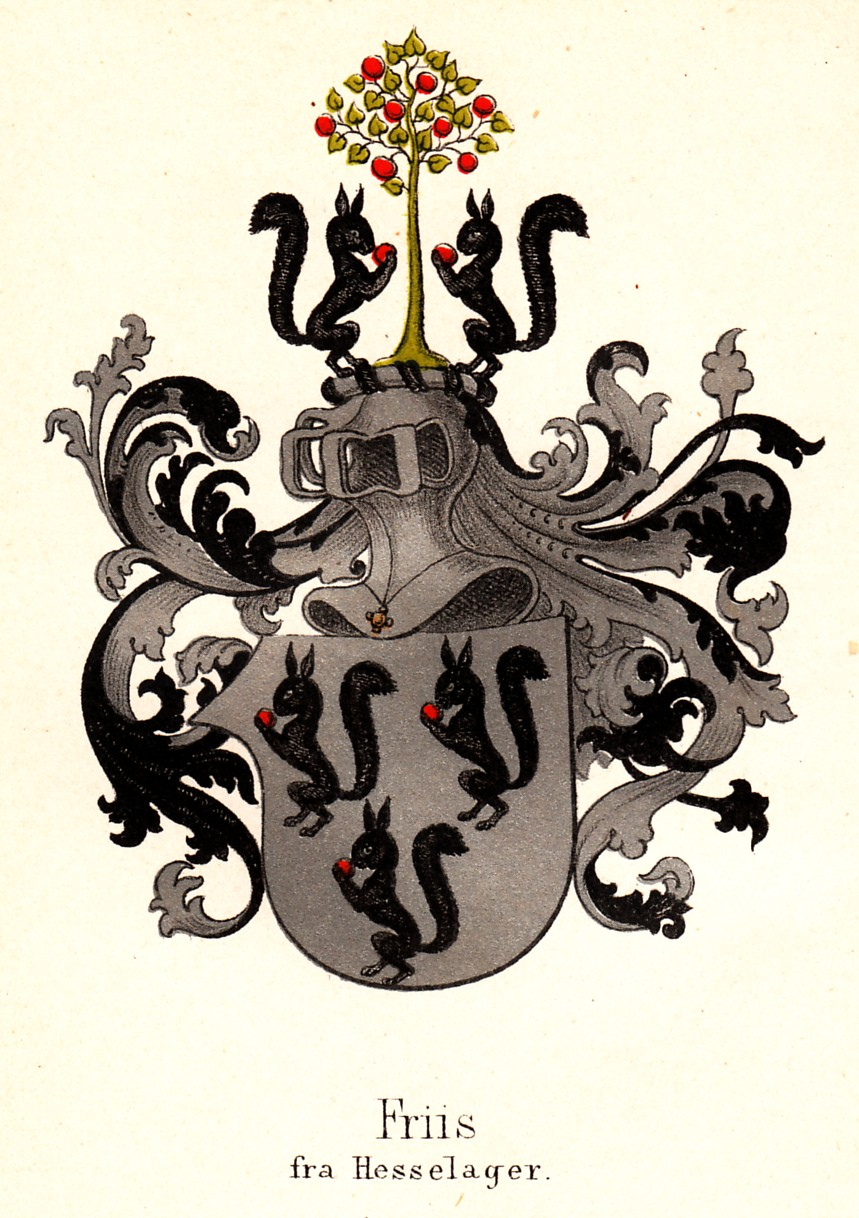 Coat of arms of the Friis of Hesselager family